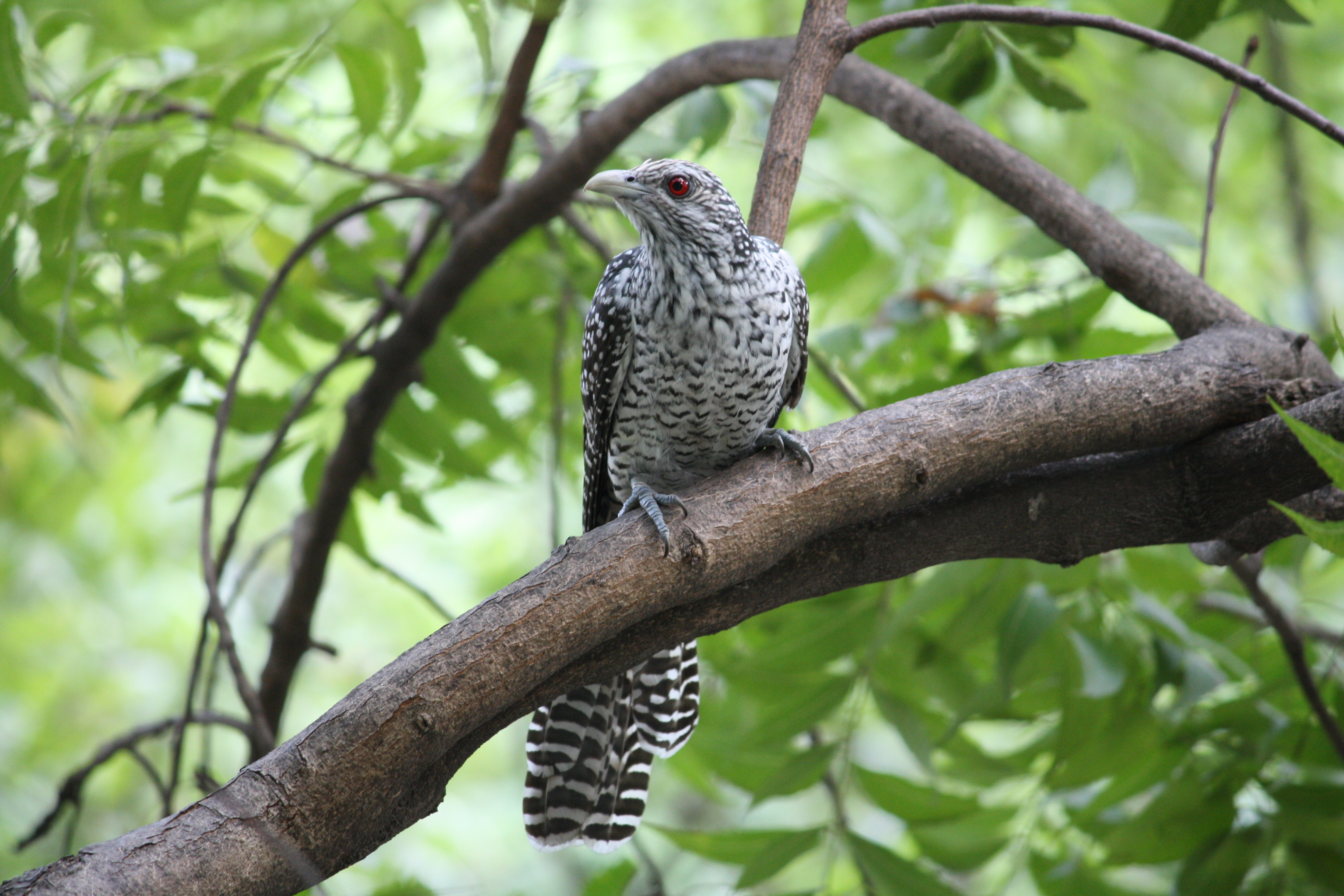 This photograph taken in the heart of the city of Chennai, Tamil Nadu, India is of a Female Asian Koel. This one has a predominantly black back with spots and a predominantly white belly with spots, along with a striped tail. The red eye-ring also stands out in this photograph.